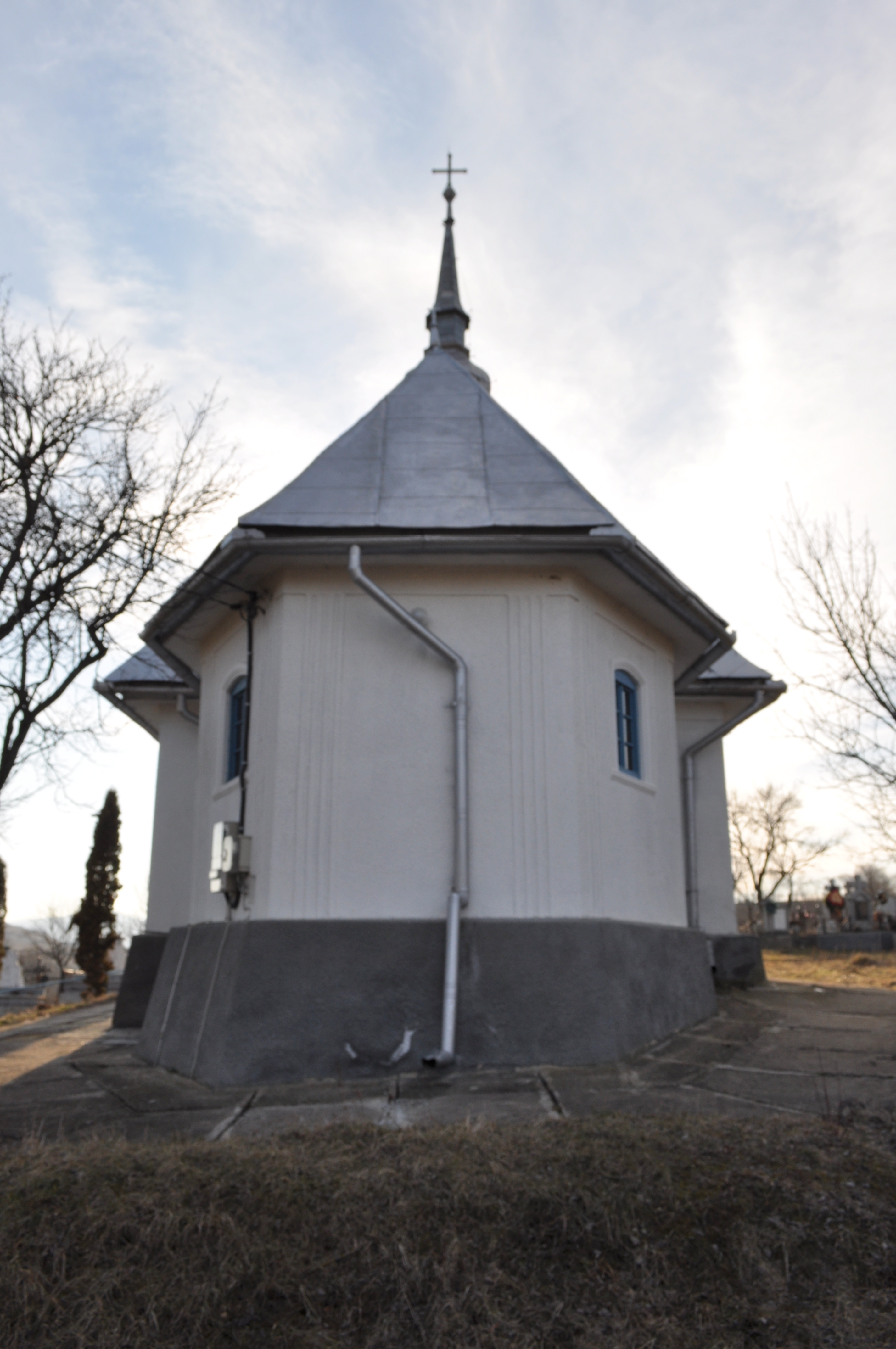 Wooden church in Filea de Jos, Cluj county